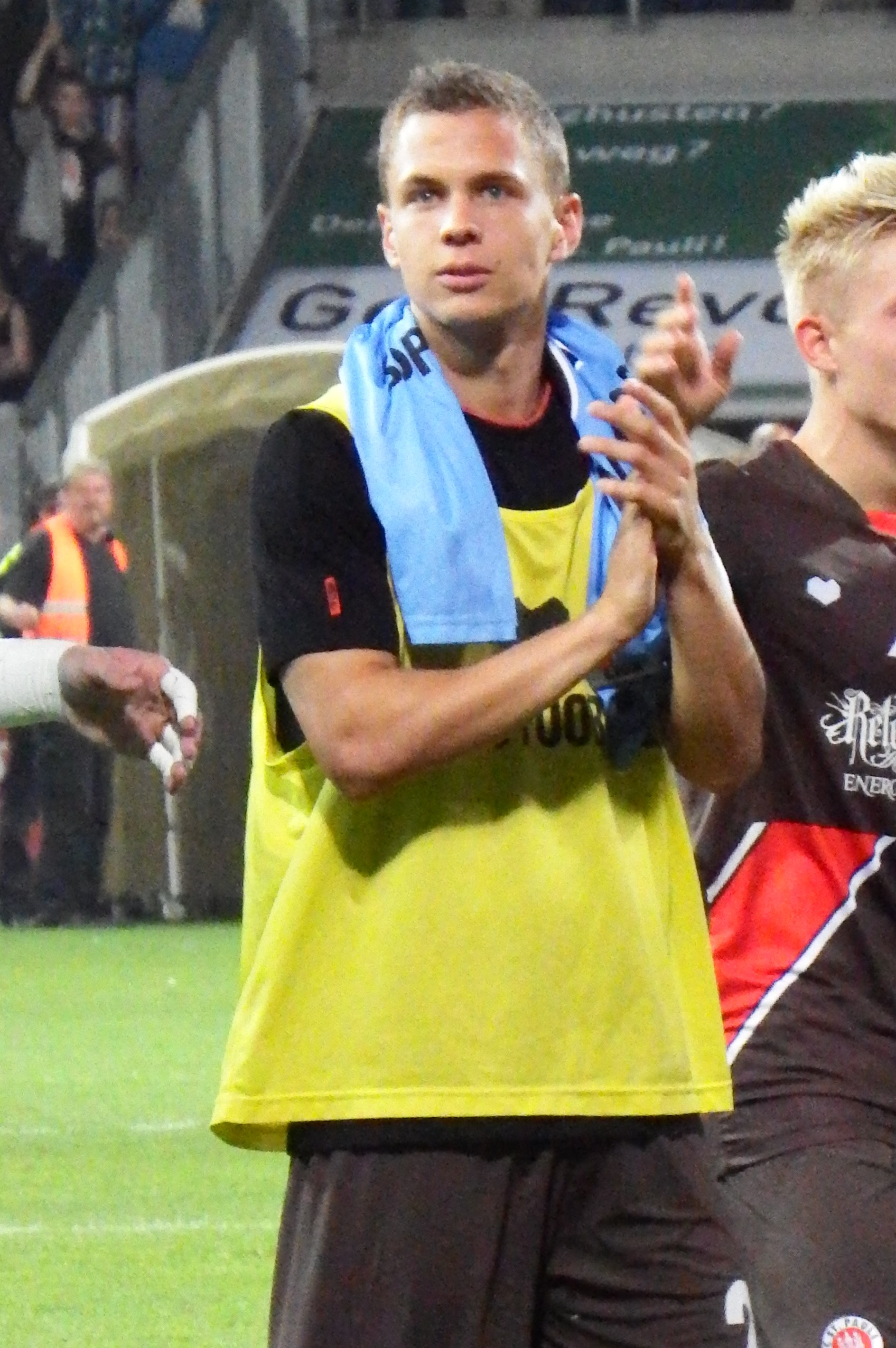 Sebastian Maier as Player of FC St. Pauli